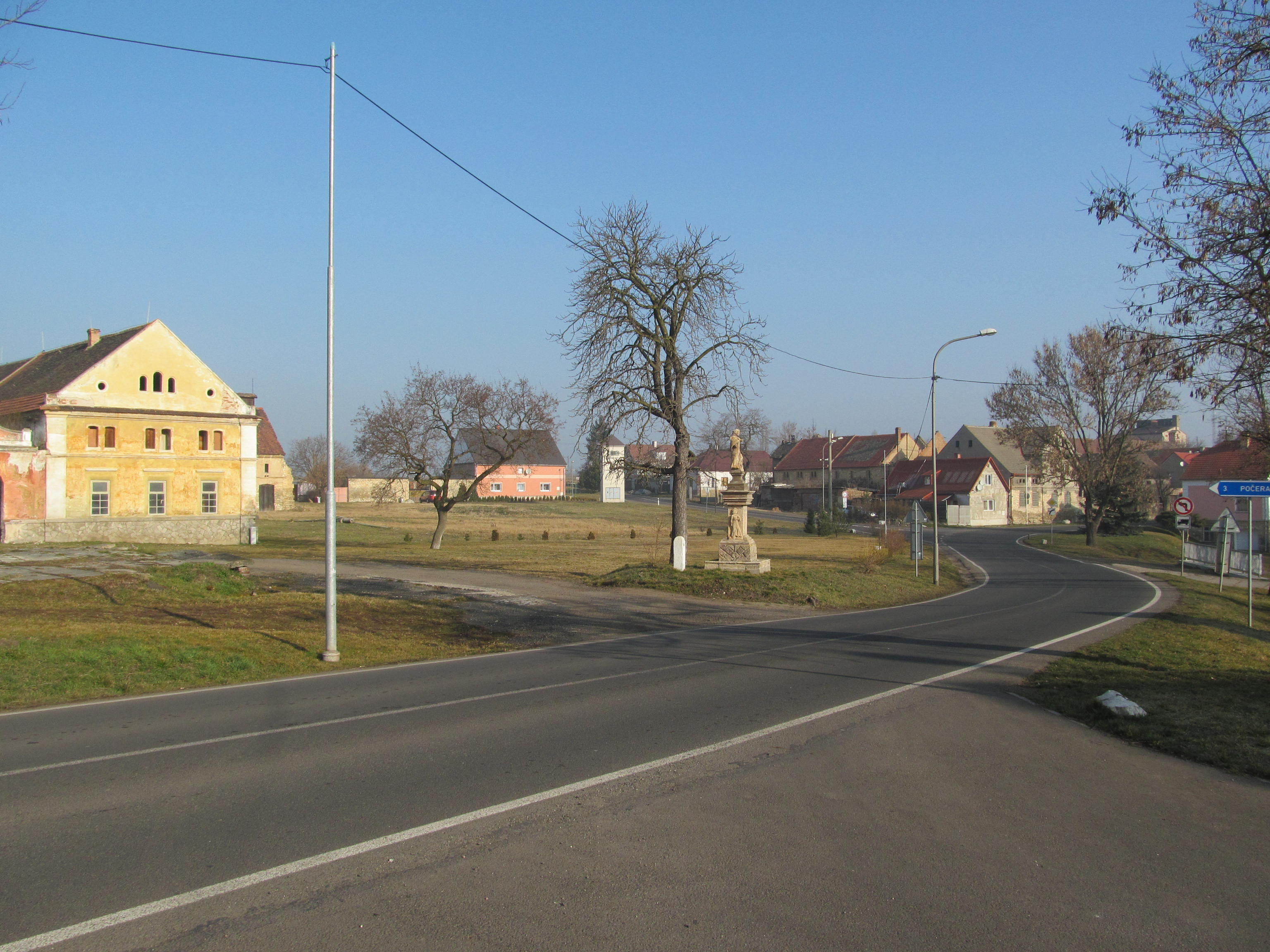 Village square in Břvany